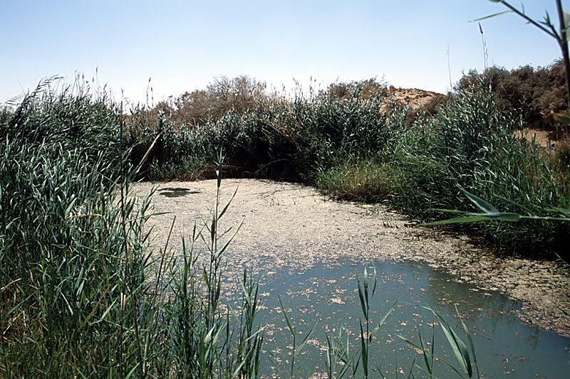 Source of Ayn Bisai, Farafra, Egypt